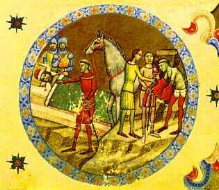 Géza I. of Hungary